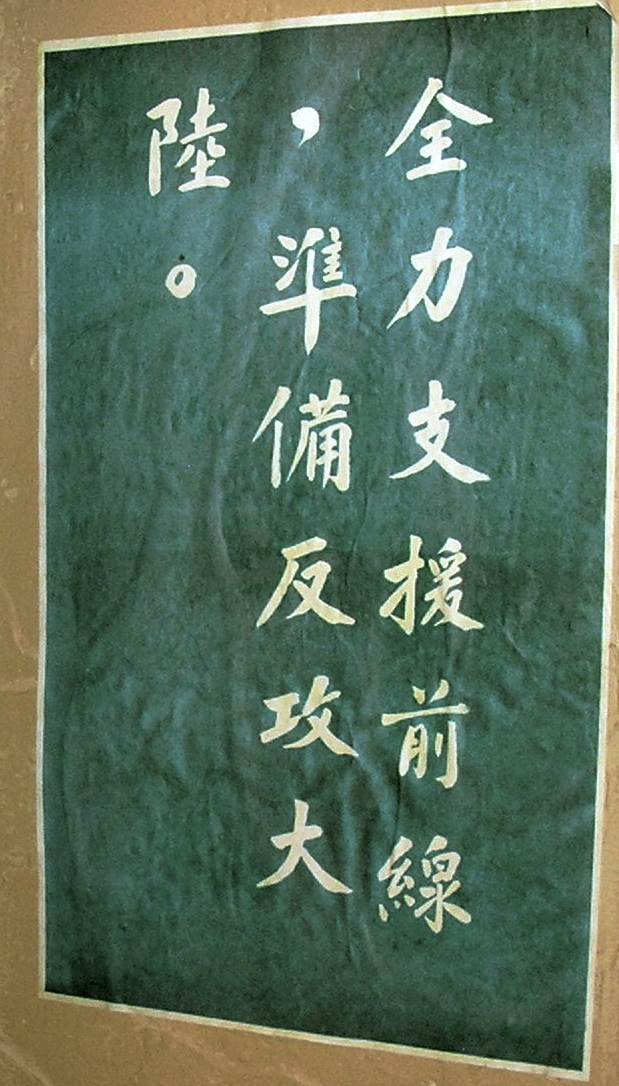 ROC Propaganda slogan, circa 1960s Taiwan. "Support the front lines. Prepare to retake the Mainland".